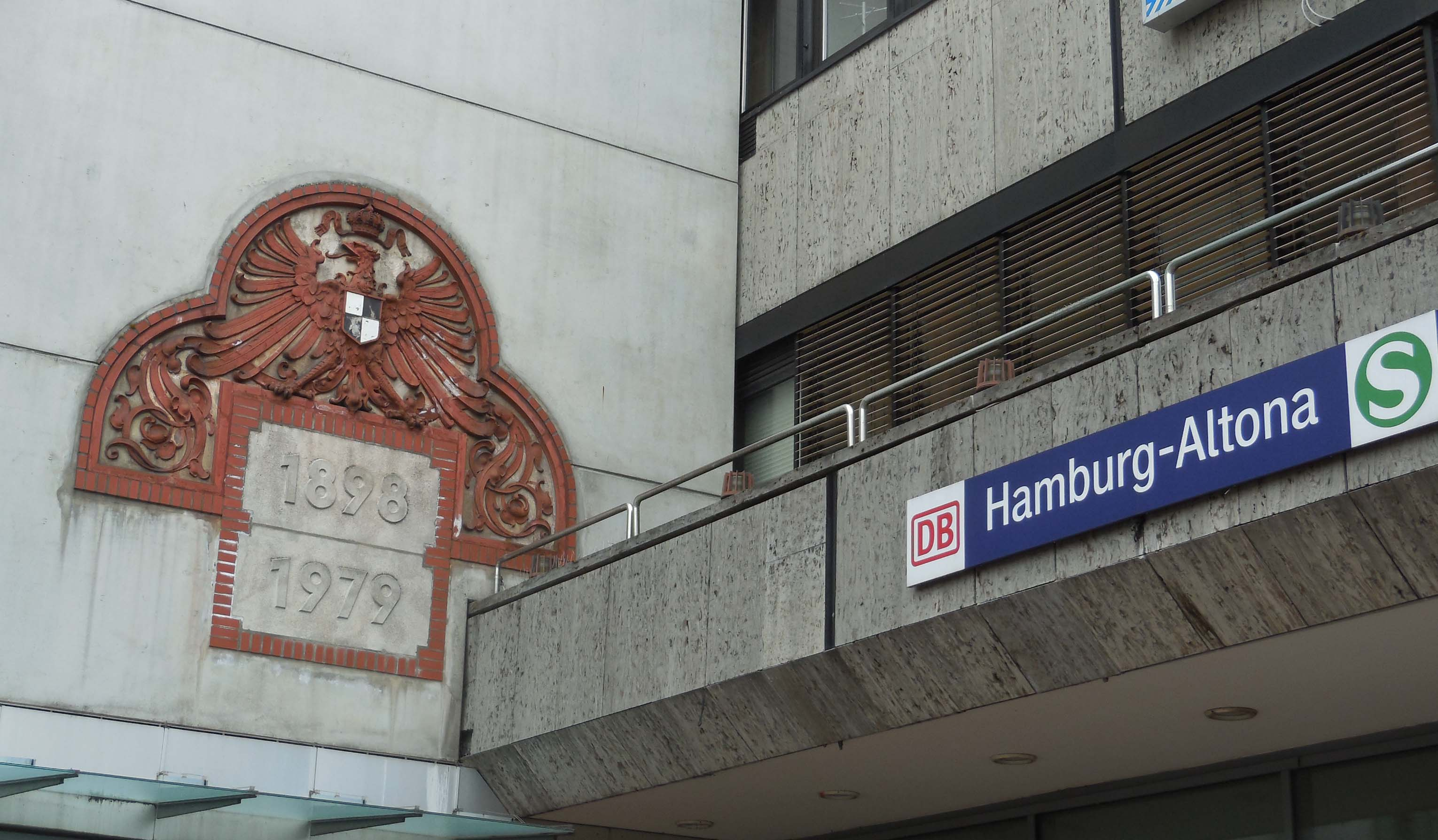 Prussian coat of arms at Hamburg-Altona train station